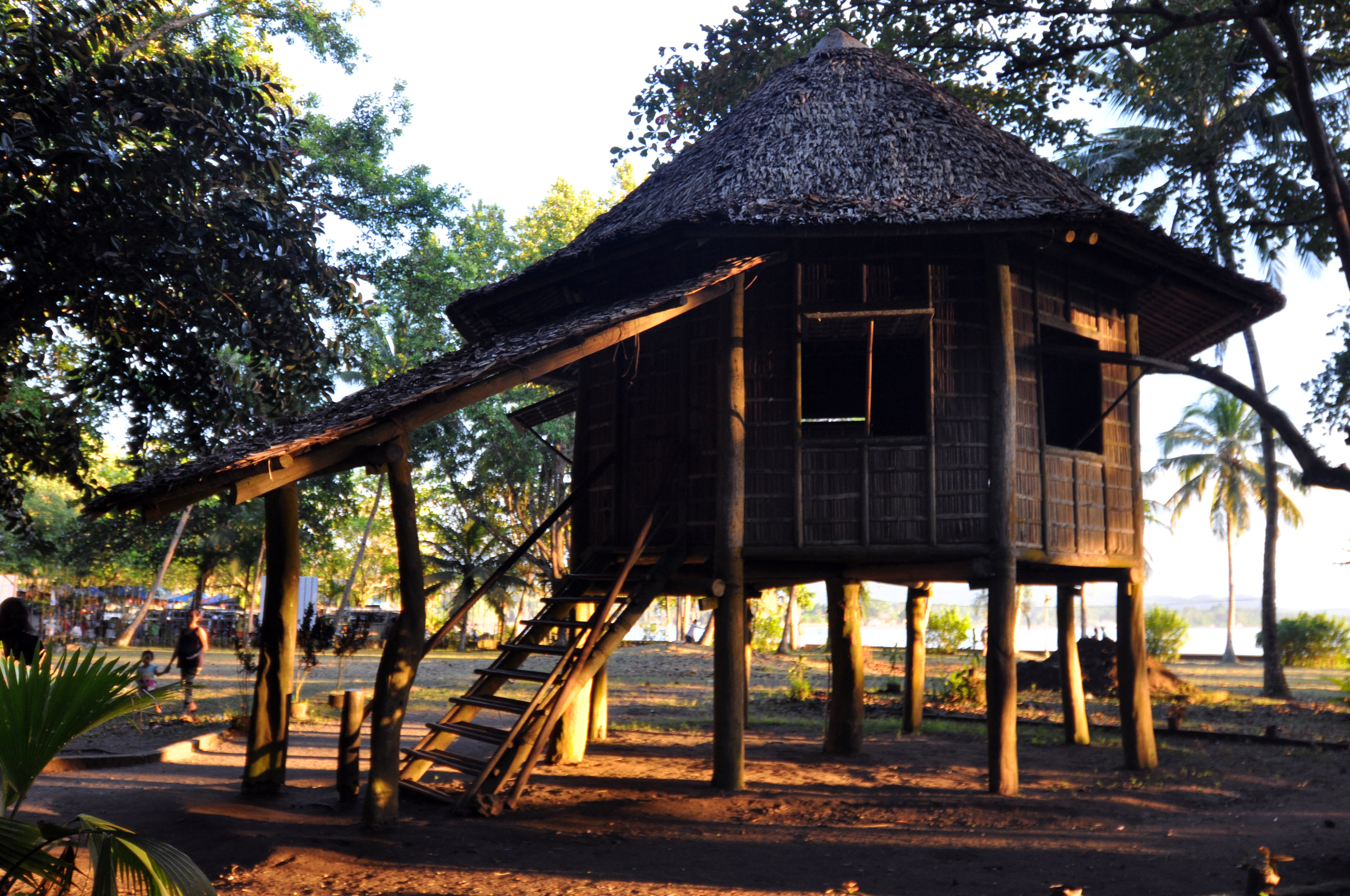 Built structures inside the Rizal Shrine in Dapitan City.